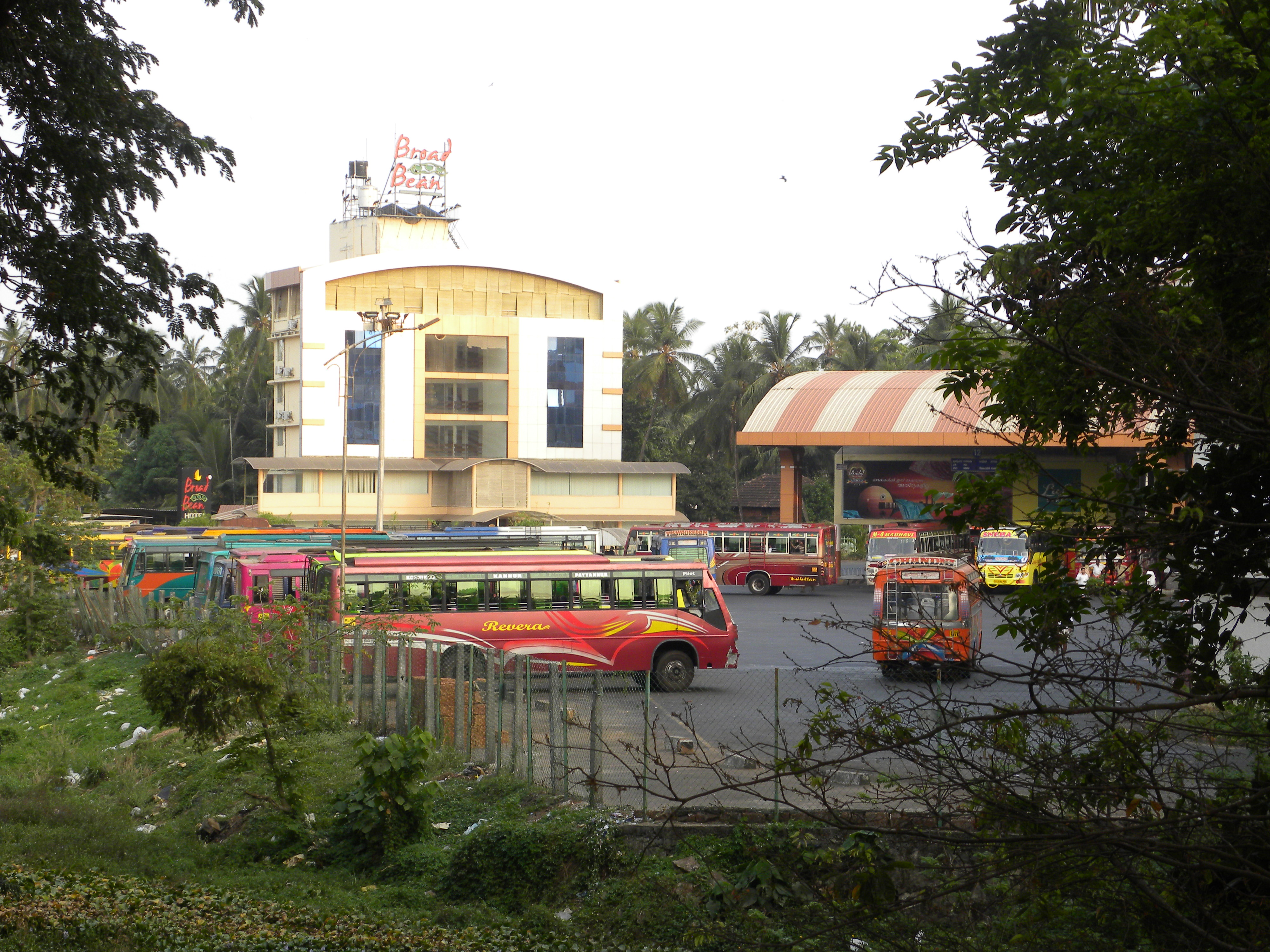 private bus stand, thavakkara, kannur